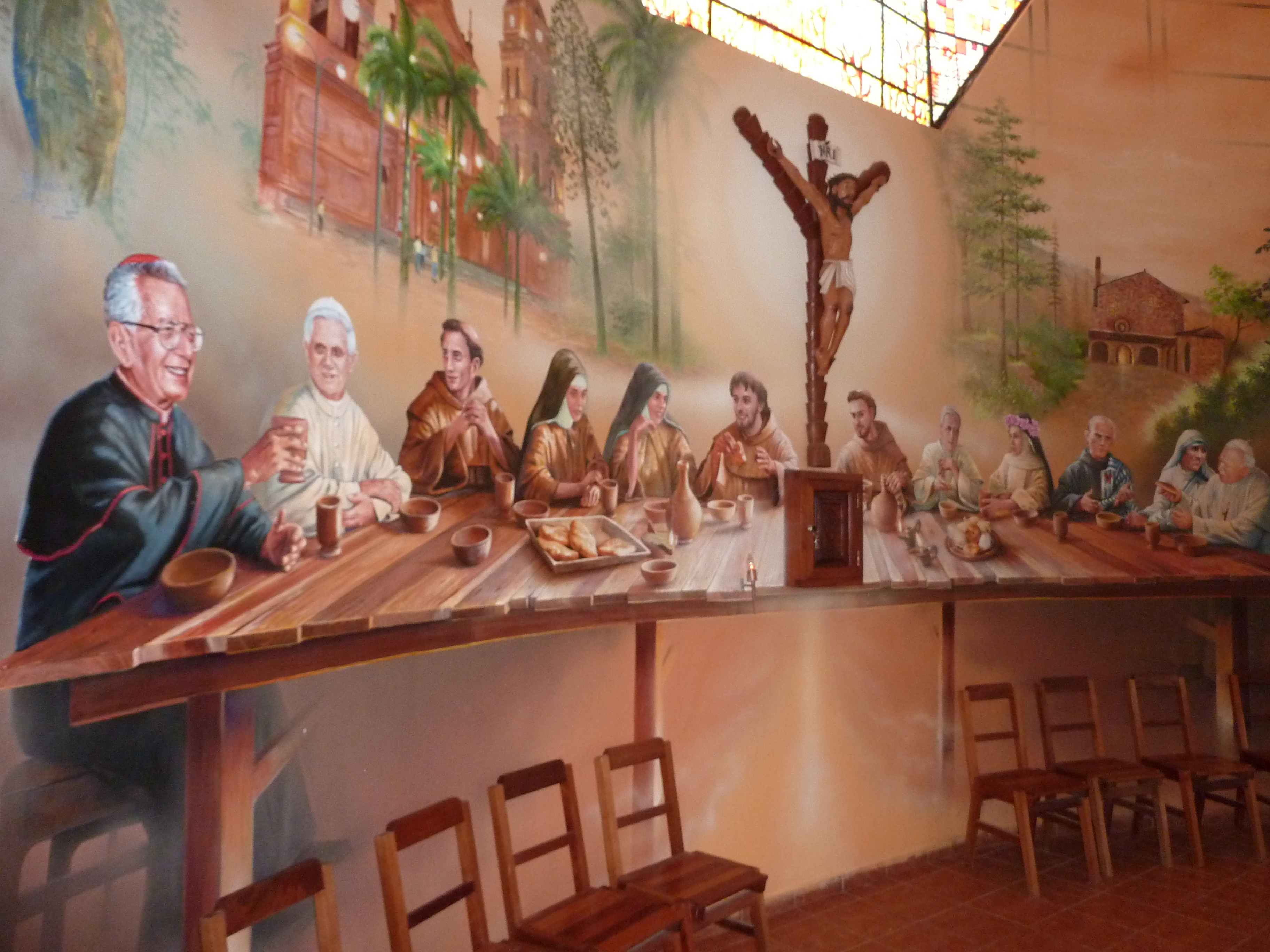 Saint Anthony of Padua church in Santa Cruz